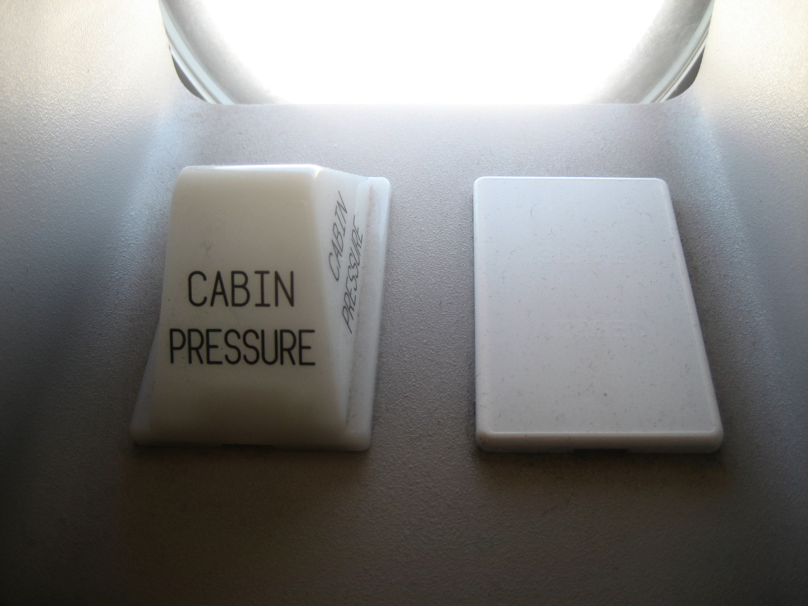 A320 Door indications